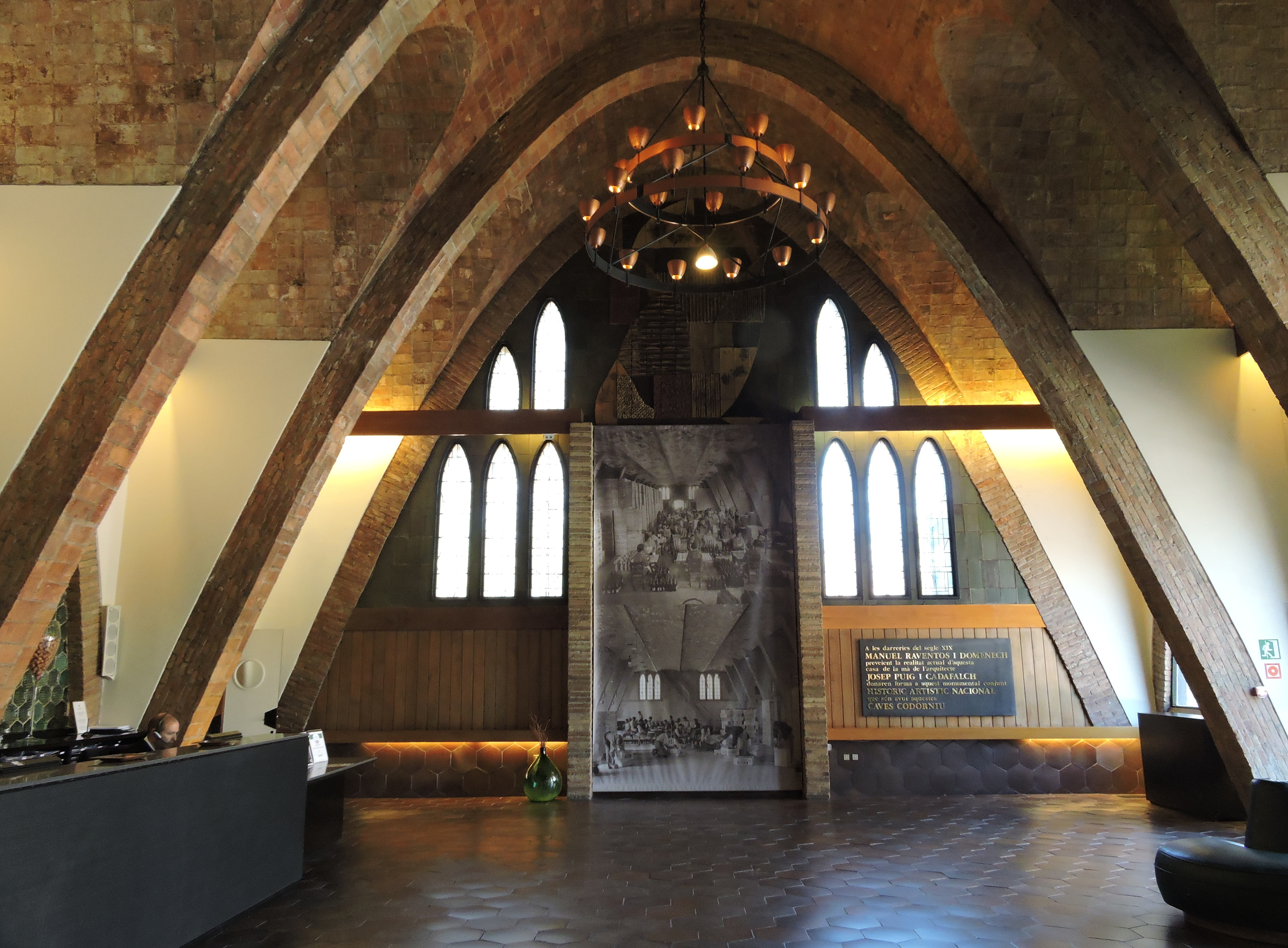 Inside the visitors hall of the Cava producers Codorníu